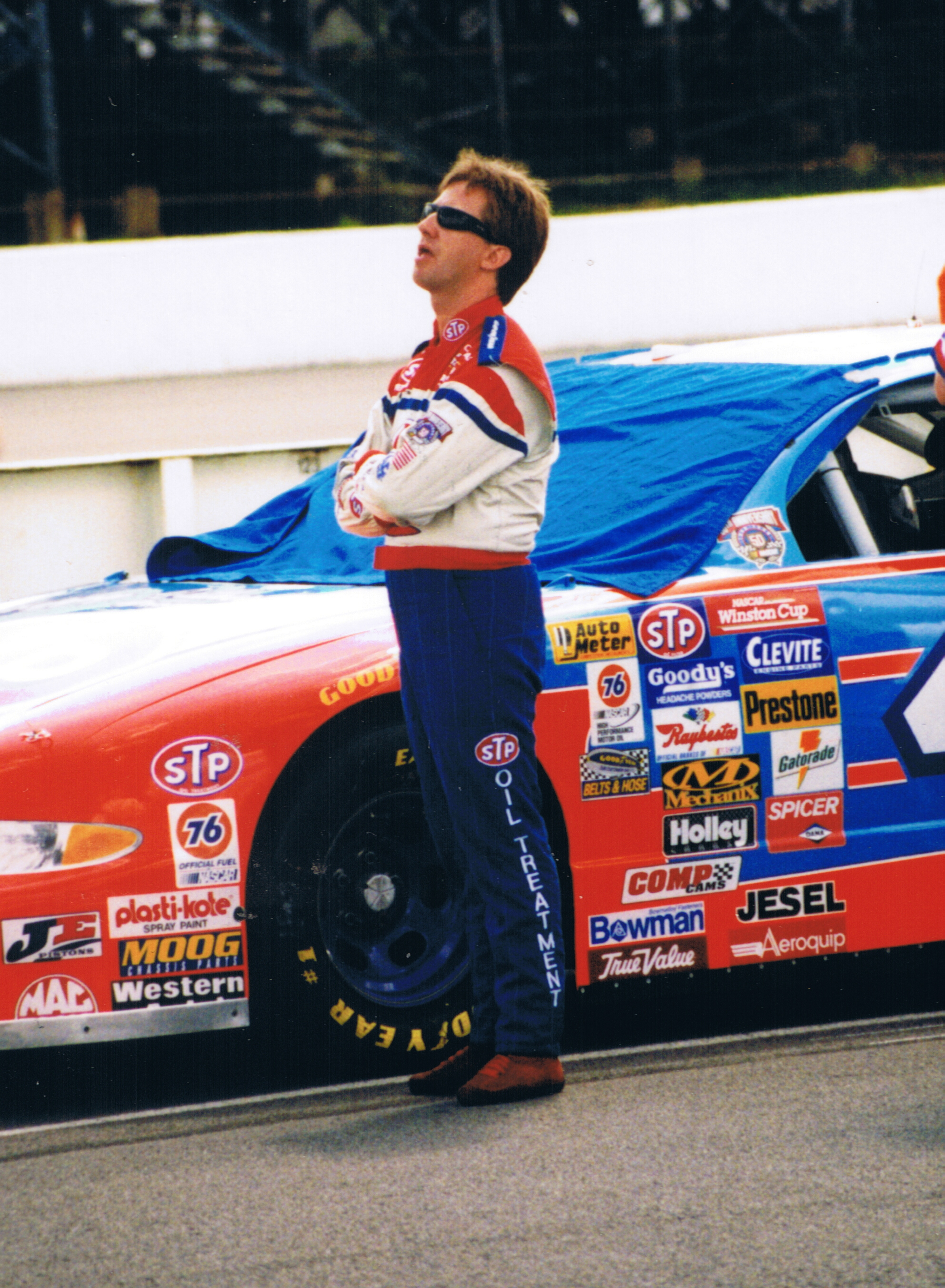 John Andretti at Pocono Raceway, June 1998